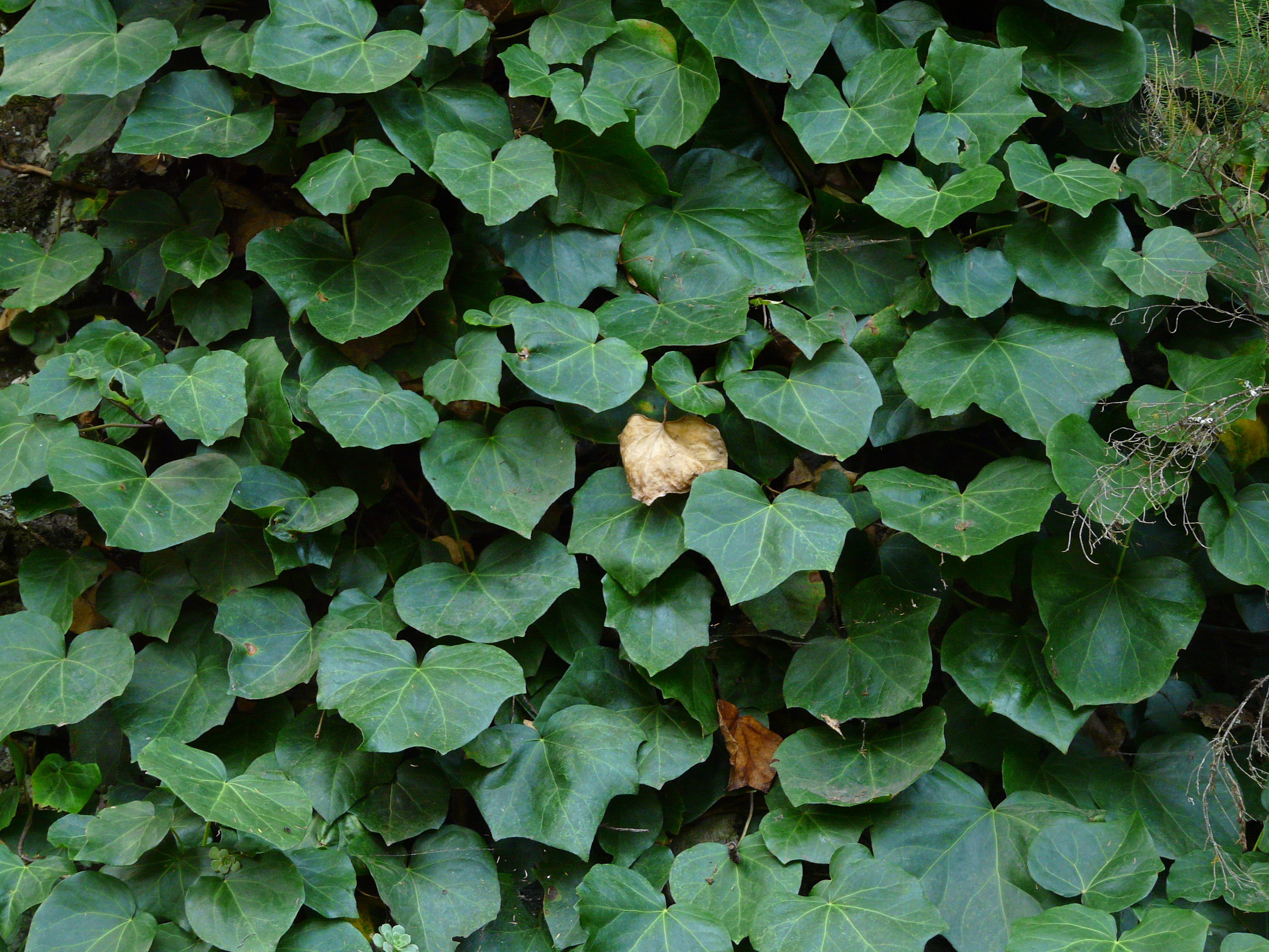 Canaries Ivy (Hedera canariensis Willd.) in Laurisilva on Gomera (Canary Islands)